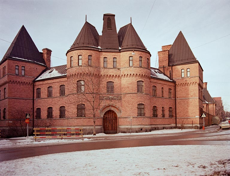 The former Östermalm Prison (1897-1925) seen from the outside. The building was demolished in 1968.